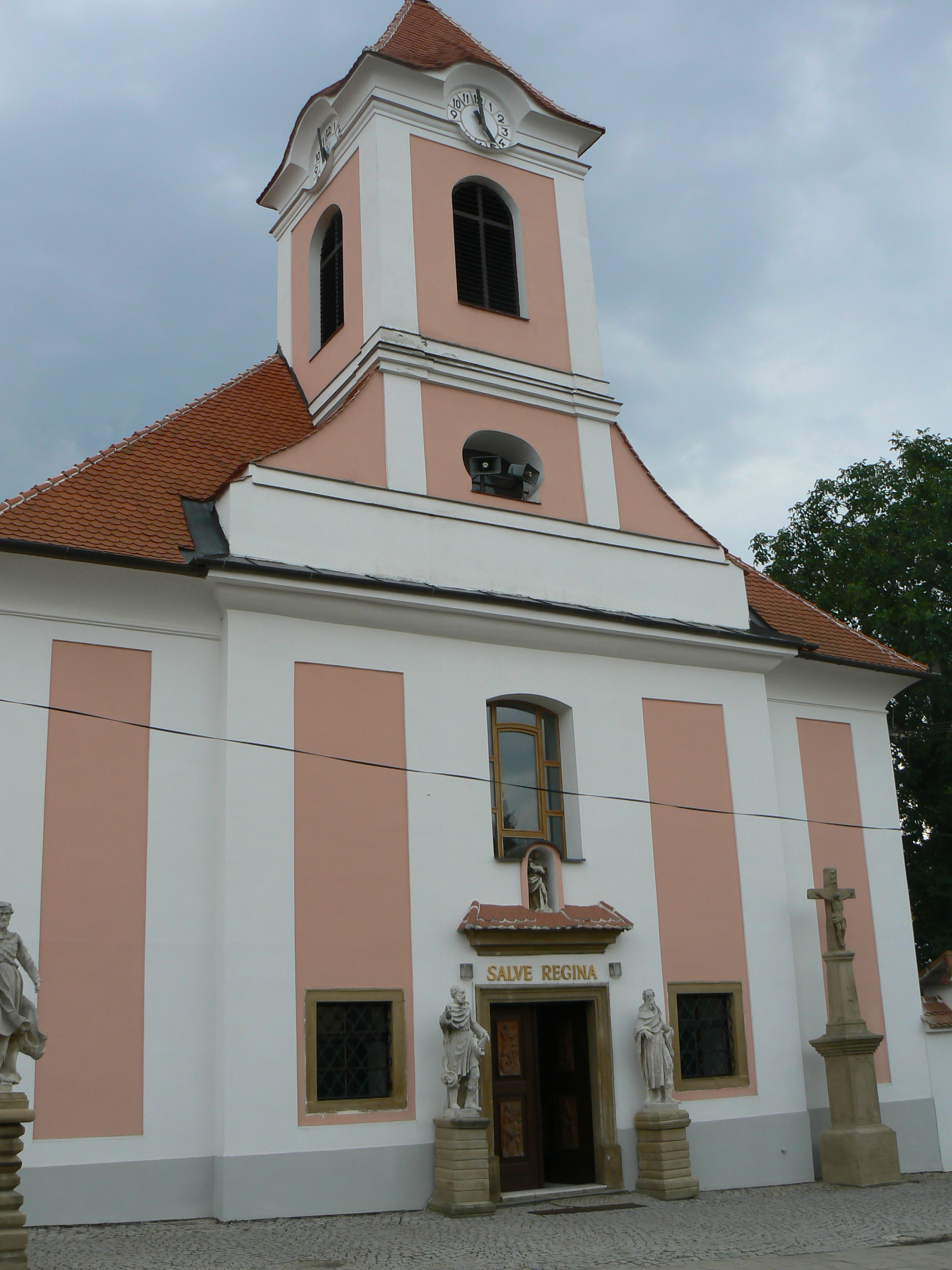 Saint Anne church in Žarošice, Hodonín District, Czech Republic.